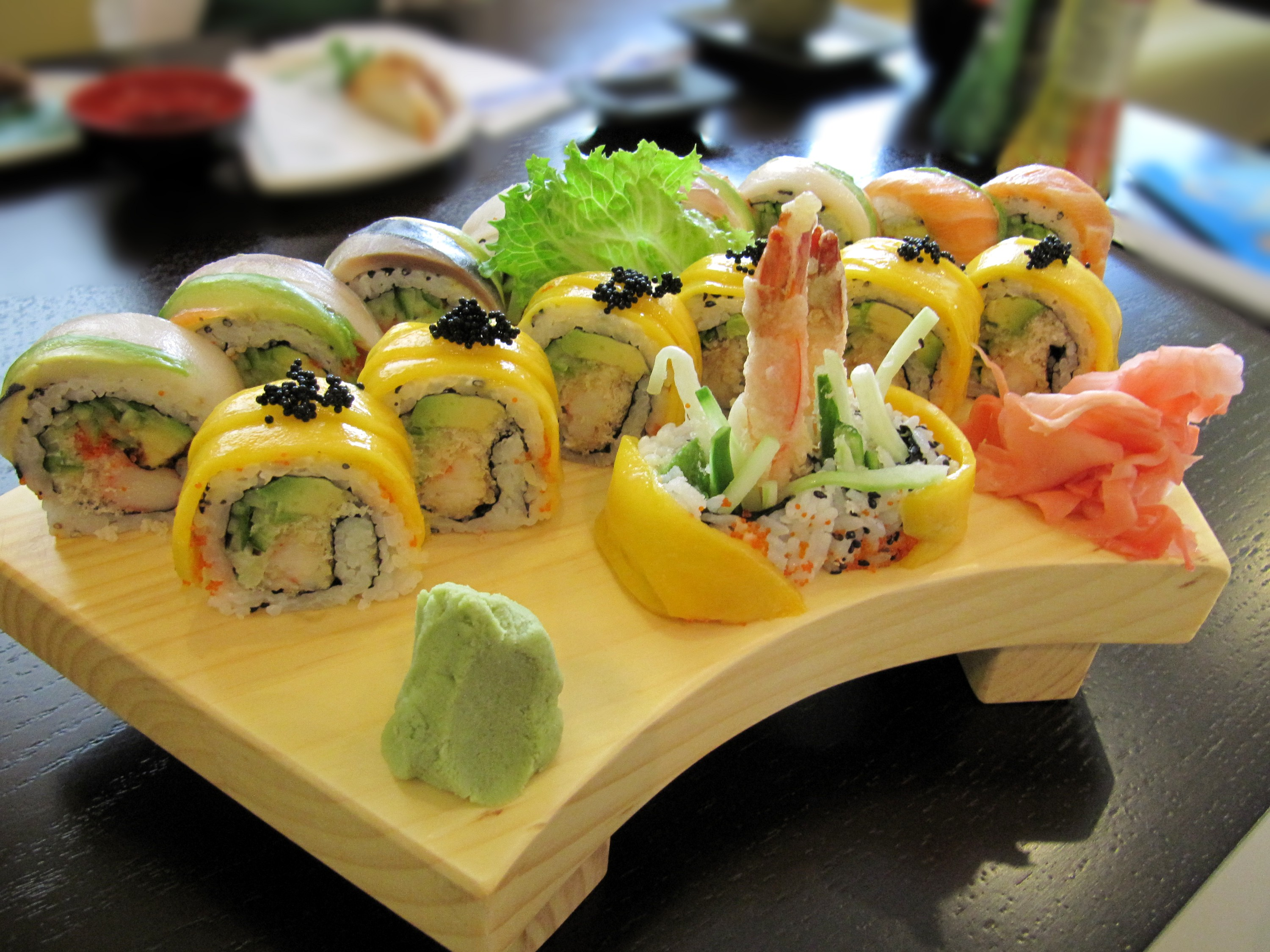 A couple maki rolls from Golden Maki in Newmarket. We've got the Rainbow Roll -- crab stick and avocado topped with a bunch of things I forget -- and the Golden Roll. The Golden Roll was pretty awesome. Tempura shrimp plus mango... why not?